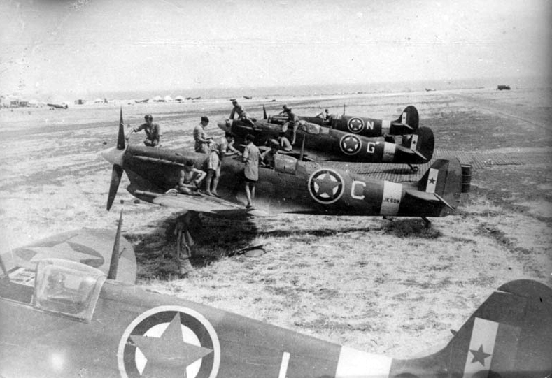 Spitfires of the No 352 (Y) Squadron RAF, aka Balkan Air Force. Spitfires before first mission on August 18, 1944, from airport Canne - Italy Removed from the following pages: Balkan Air Force --OrphanBot (talk) 05:20, 3 August 2008 (UTC) Added to the following pages: Balkan Air Force ---Gaston200 (talk) 13:28, 3 August 2008 (UTC)